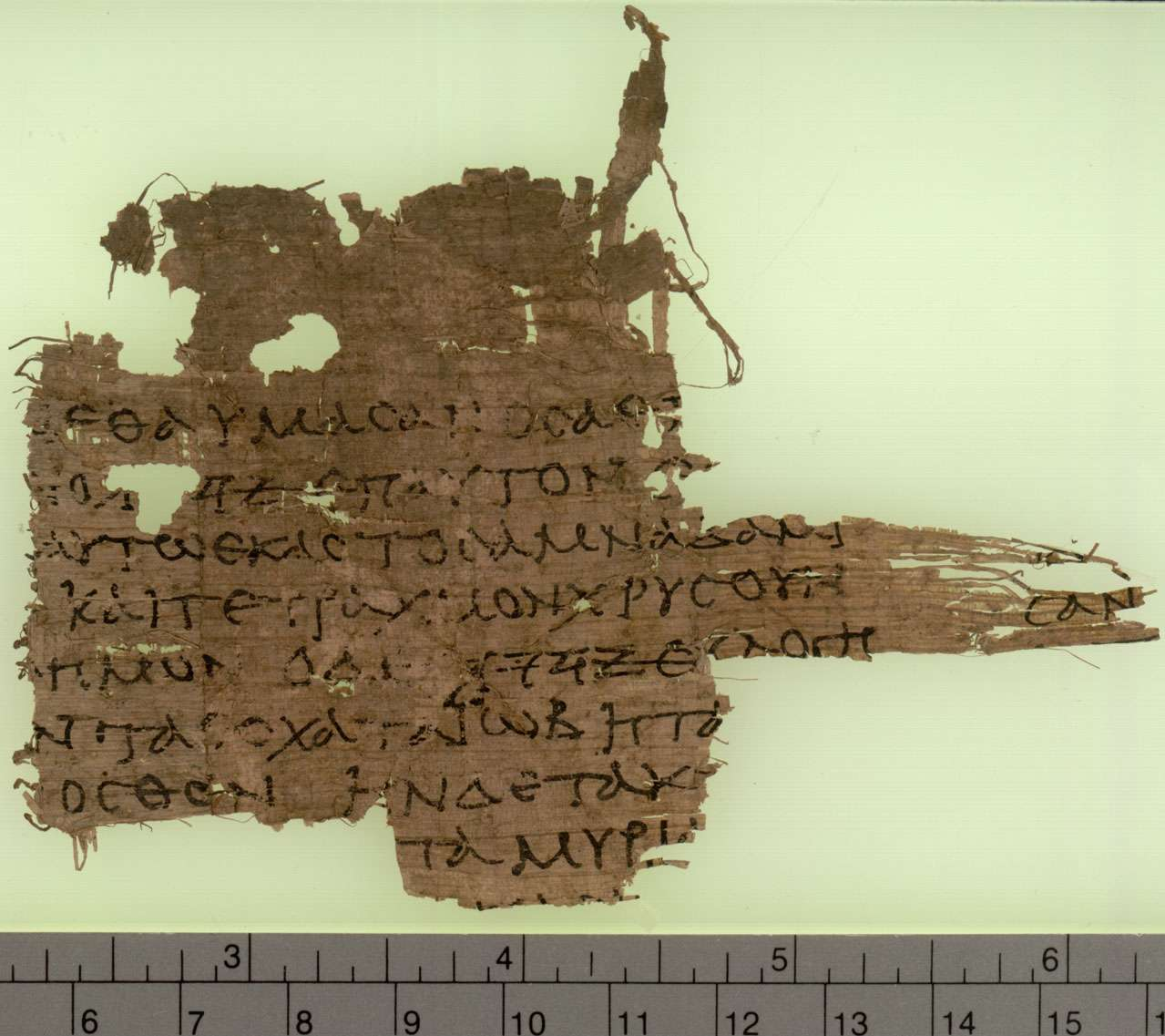 P. LXX Oxyrhynchus 3522, held in the Papyrology Rooms, Sackler Library, University of Oxford